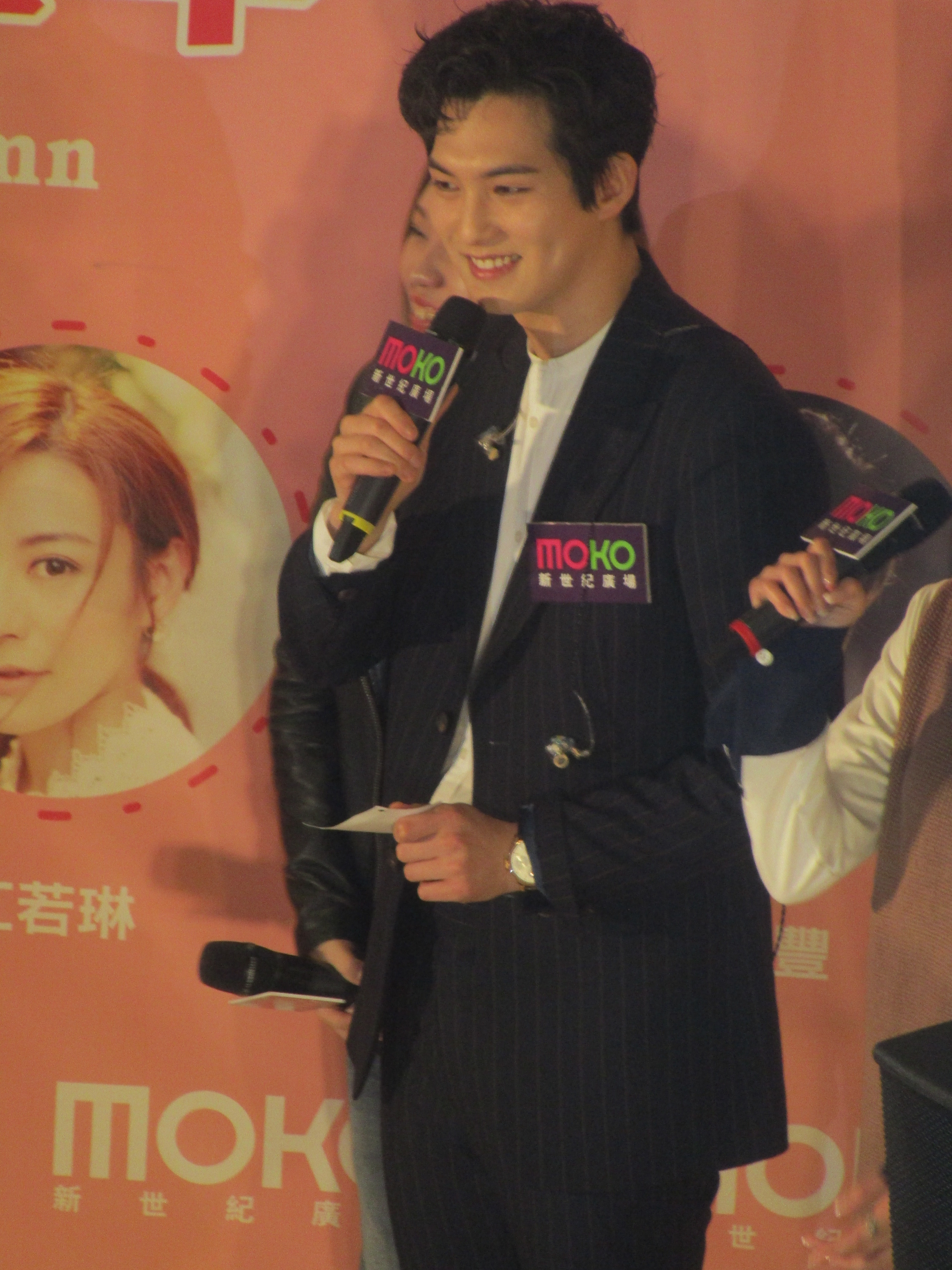 Lee Jong-hyun is in MOKO, Mong Kok